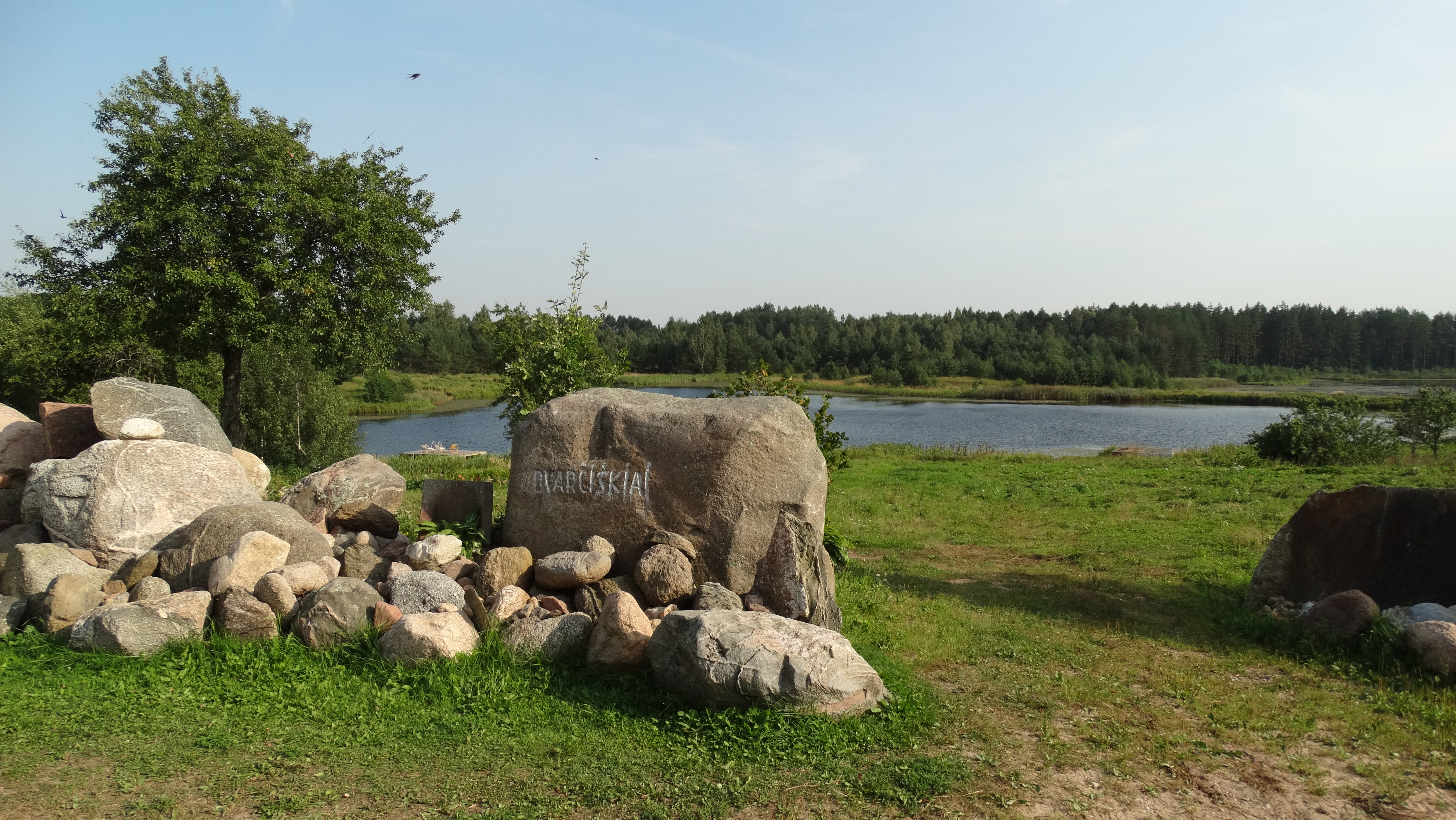 Gojinis Lake by Dvarčiškiai, Švenčionys District, Lithuania